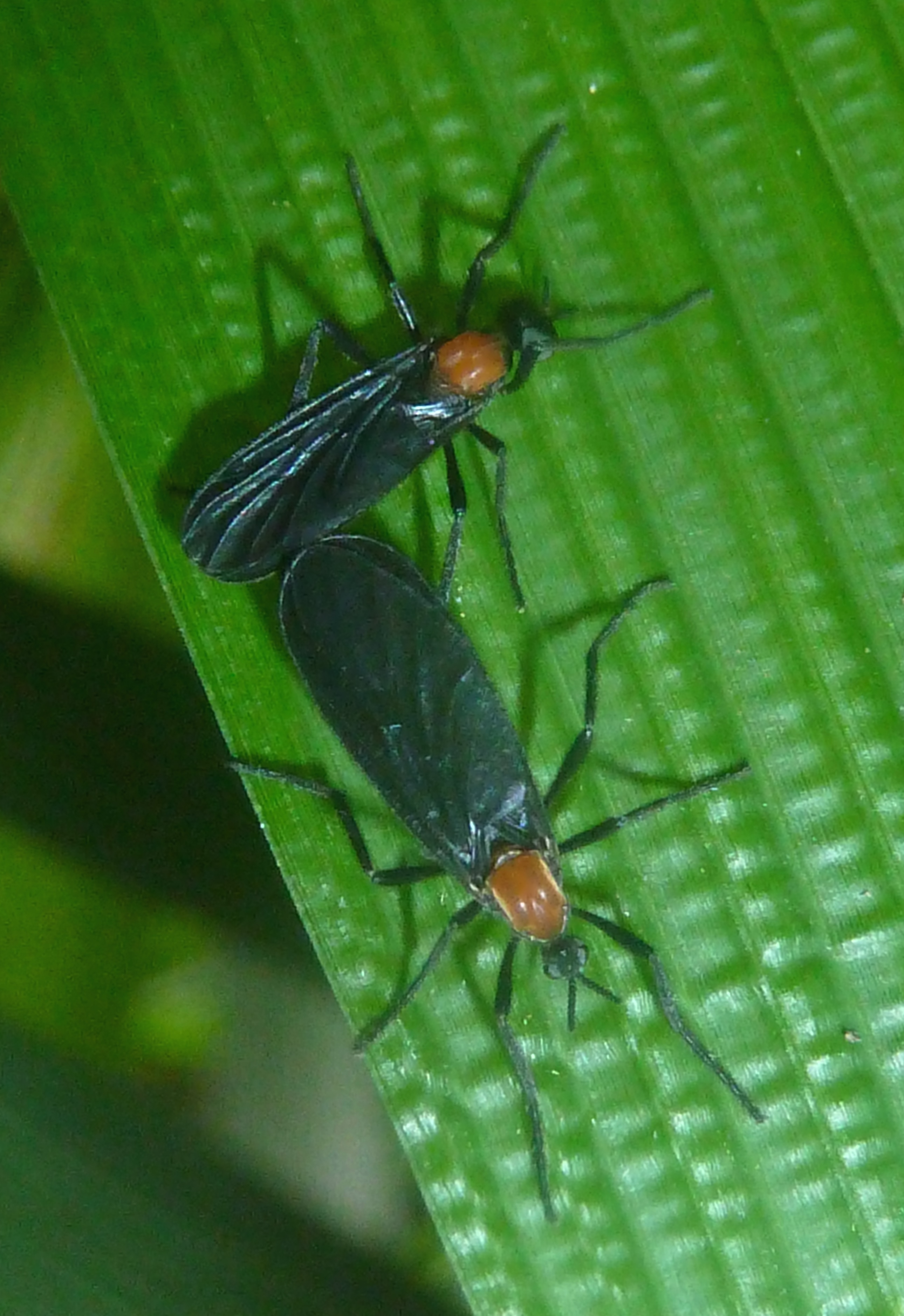 A pair of mating Harlequin flies on the underside of a Broad-leaved setaria leaf, in the Manie van der Schijff Botanical Garden in Pretoria